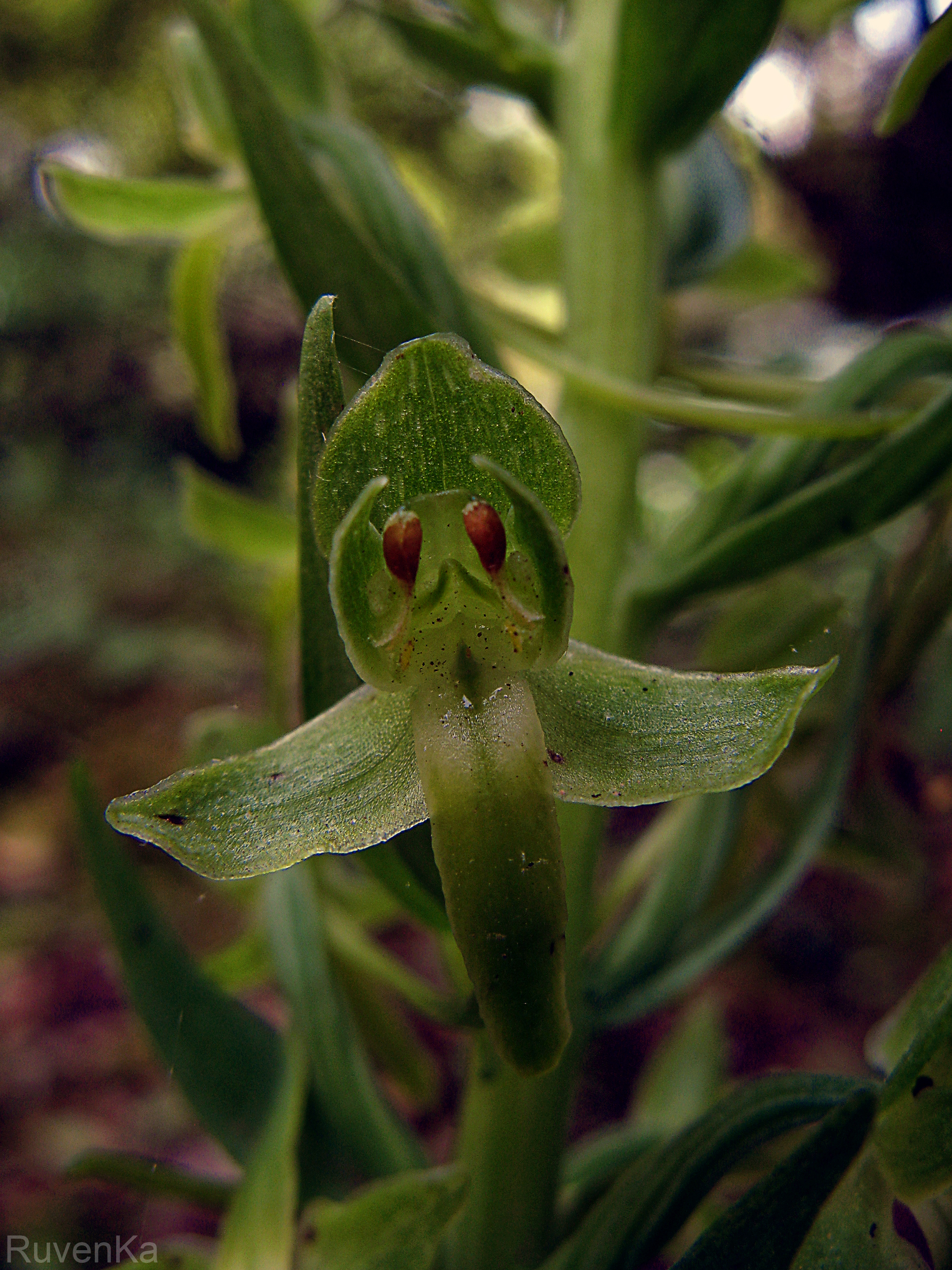 Platanthera holmboei